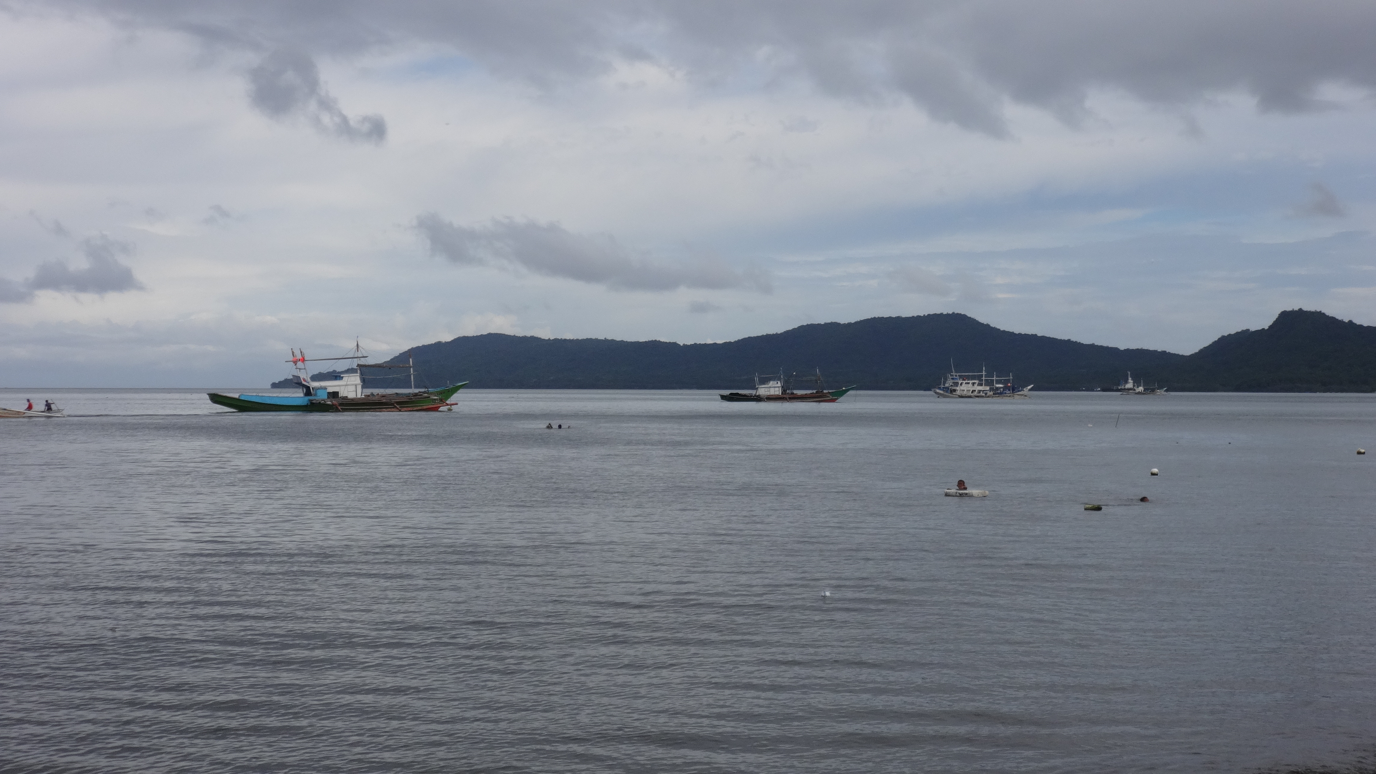 View of Balayan Bay and Calatagan Peninsula from Barangay San Piro, Balayan, Batangas